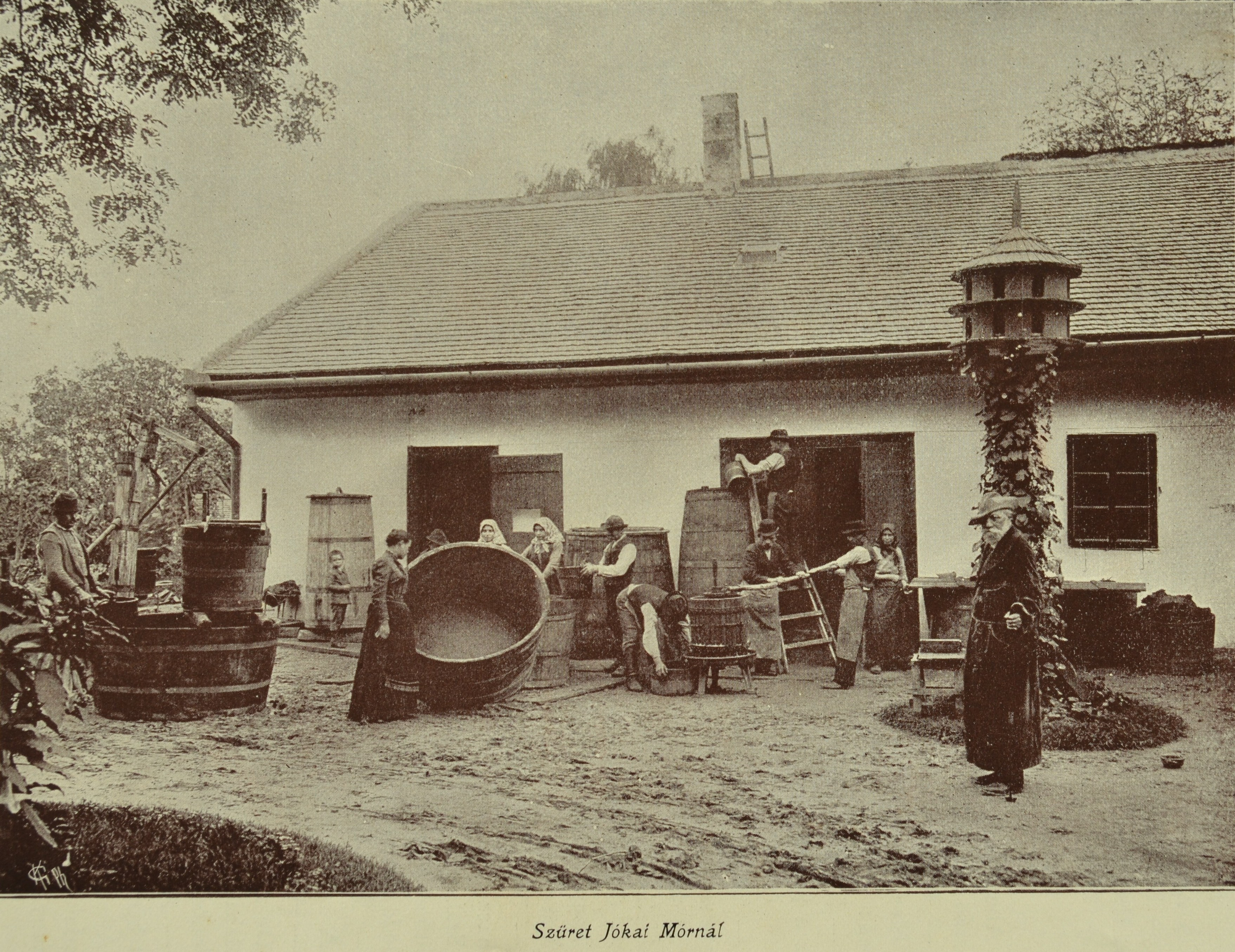 Vintage at the House Mór Jókai